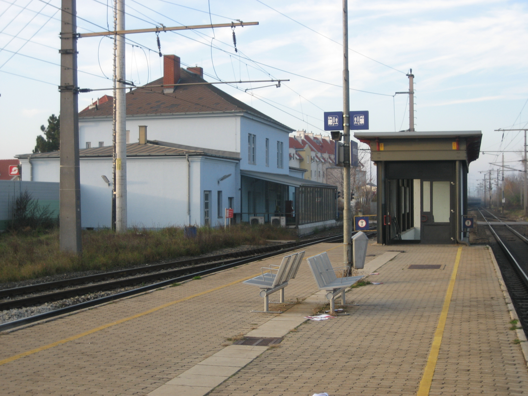 train station Himberg in Lower Austria